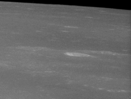 Highly oblique view of Wallach, Mare Tranquillitatis, on the moon. Wallach is the brightest spot just right of center. Facing west.